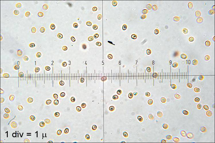 Phylloporia ribis (Schumach.) Ryvarden Image location: Bovec basin, East Julian Alps, Posočje, Slovenia Code: Bot_590/2012_DSC2418 Habitat: Light broad-leaf forest intermixed with unmaintained grassy meadows, flat terrain, old calcareous river deposits, partly shady, partly protected from direct rain by tree canopies, average precipitations ~ 3.000 mm/year, average temperature 8-10 deg C, elevation 365 m (1.200 feet), alpine phytogeographical region. Substratum: Euonymus europaea Place: Soča valley between Kobarid and Žaga, right Soča bank near Srpenica village, East Julian Alps, Posočje, Slovenia EC Comments: Growing solitary at the base of a middle size Euonymus europaea bush situated under a large Fagus sylvatica, alive but not in a good health condition. Pileus diameter up to 15 cm x 10 cm (6 inch x 4 inch) and 3 cm (1.2 inch) thick, hard, difficult to cut through, corky. Caps’ upper side dark tobacco color (oac638), almost totally covered by mosses. Context somewhat lighter than cap (oac644). Pore layer concolorous with context, pore surface ocher-brown (oac777). SP whitish-creme. Spores smooth, small, abundant. Dimensions 3.4 (SD = 0.2) x 2.7 (SD = 0.2) micr., Q = 1.27 (SD = 0.09), n = 30. Motic B2-211A, magnification 1.000 x, oil, in water. Ref.: (1) A.Bernicchia, Polyporaceae s.l., Fungi Europaei, Vol. 10., Edizioni Candusso (2005), p 440. (2) G.J.Krieglsteiner (Hrsg.), Die Grosspilze Bade-Württembergs, Band 1, Ulmer (2000), p 462. (3) Ryvarden, L.; Gilbertson, R.L. 1994, Syn. Fung. 7. p535 (after MycoBank) (4) Personal communication with Mr. Anton Poler. Identification confirmed. Nikon D700 / Nikkor Micro 105mm/f2.8 and Canon G11, 6.1-30mm/f2.8-4.5 Recognized by sight For more information about this, see the observation page at Mushroom Observer.